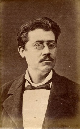 Augusto Alves da Veiga in 1882 on the cover of Galeria Republicana magazine number 14.